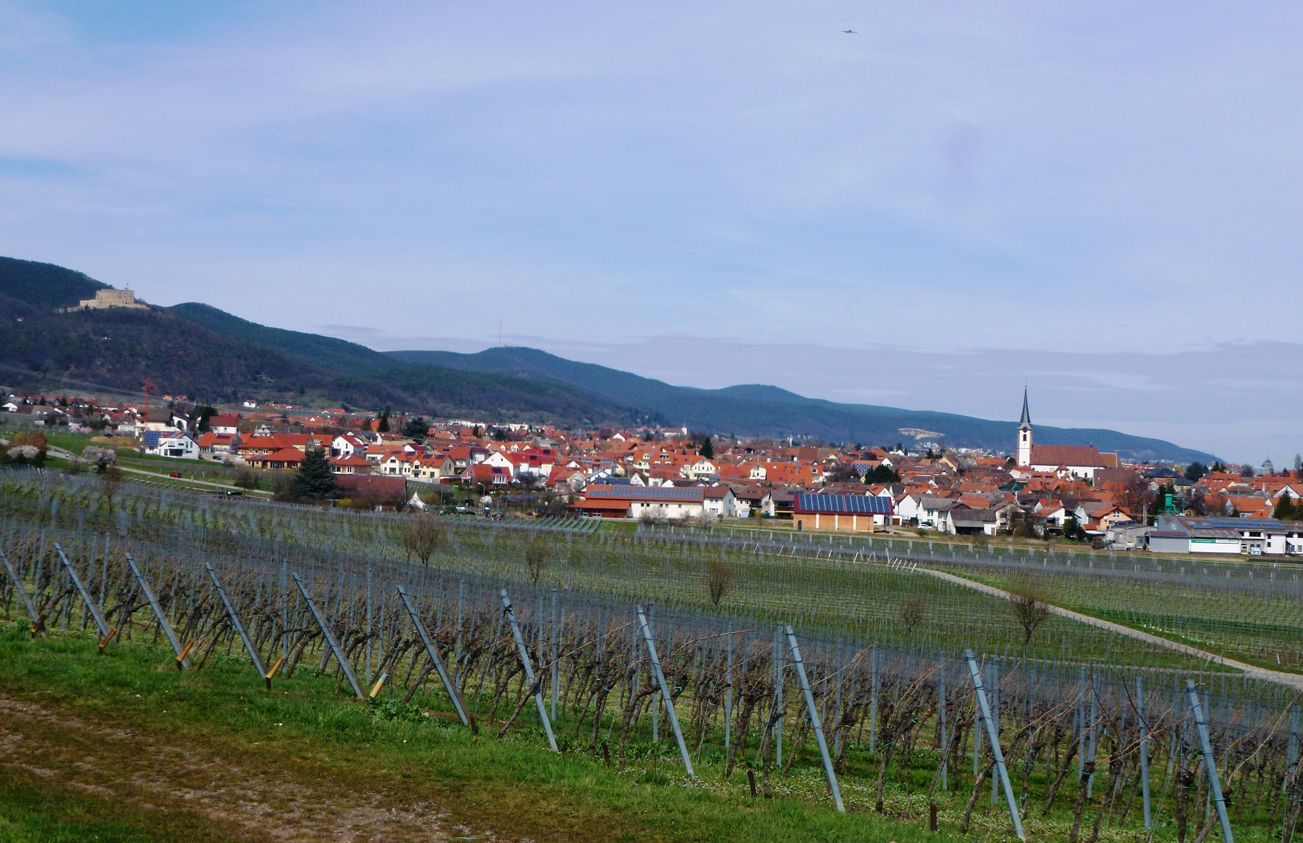 Village Maikammer and Hambacher Schloss in Germany